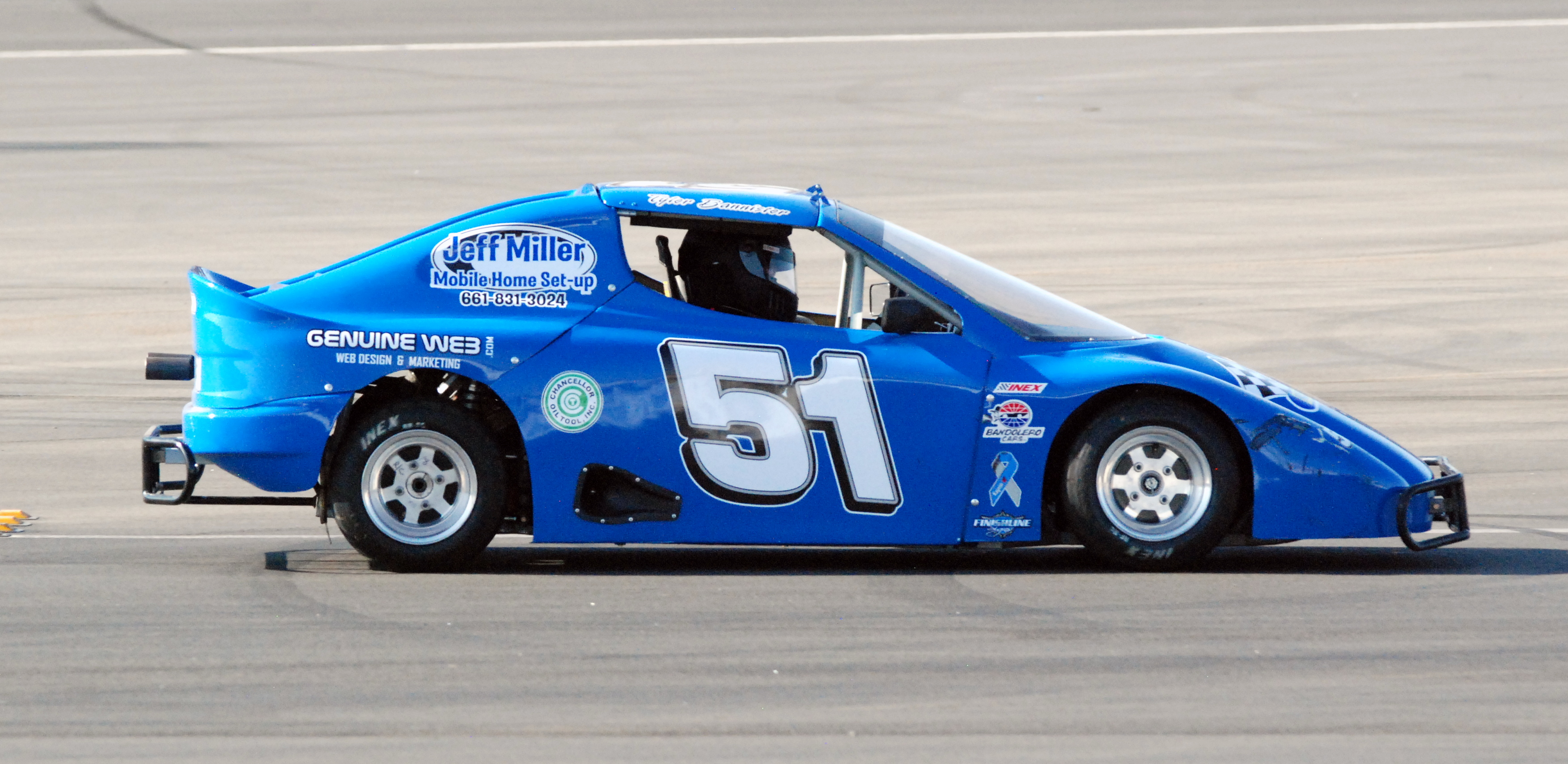 Tyler Bannister 2013